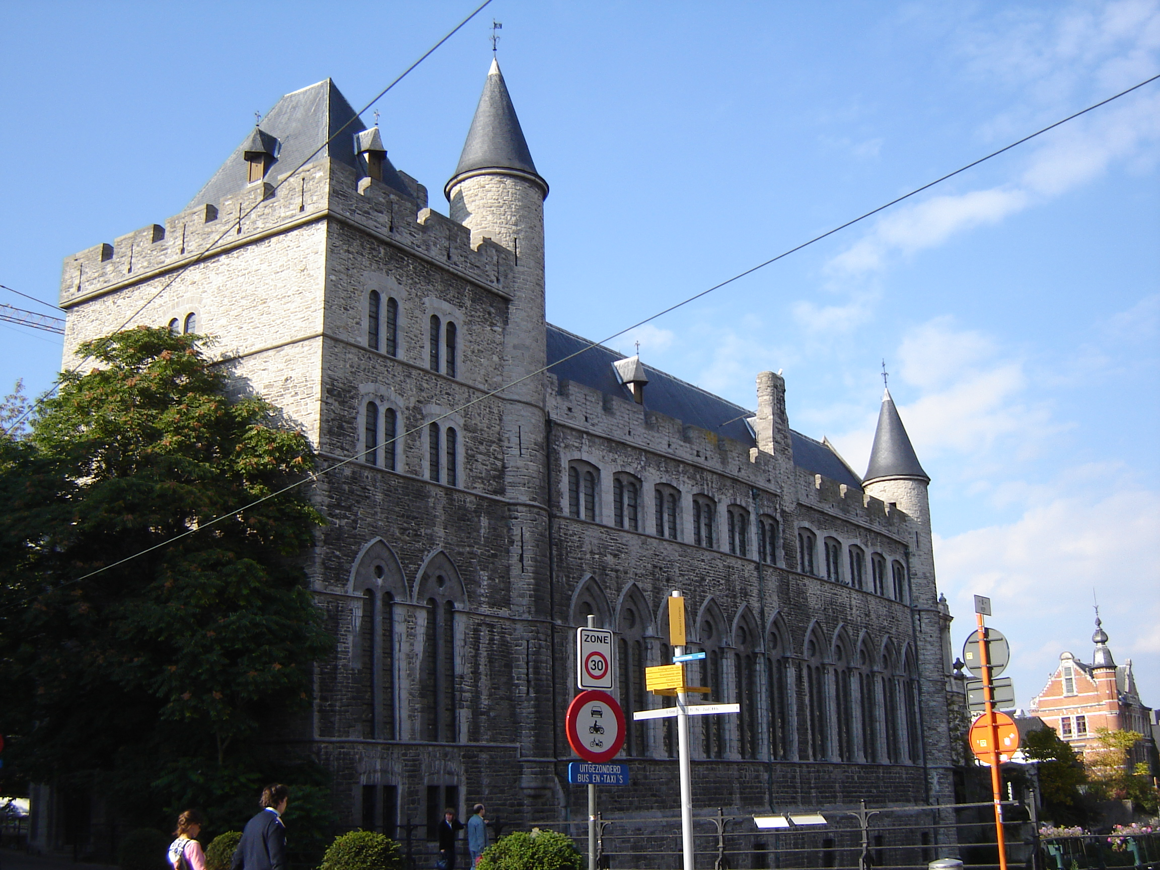 "Geeraard de Duivelsteen" in Gent. (13th century). Gent, East Flanders, Belgium